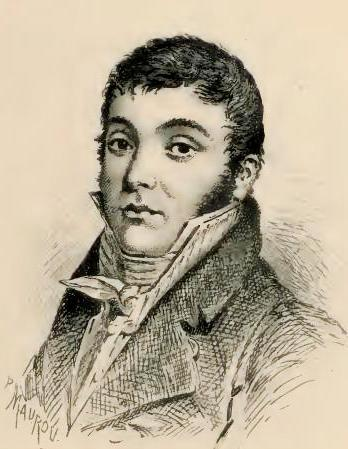 Portrait of the Occitan writer Dieulofet